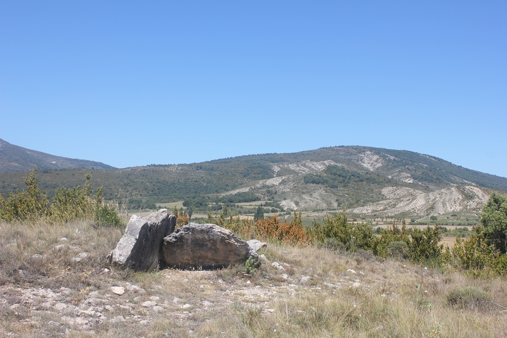 Dolmen de la Capilleta